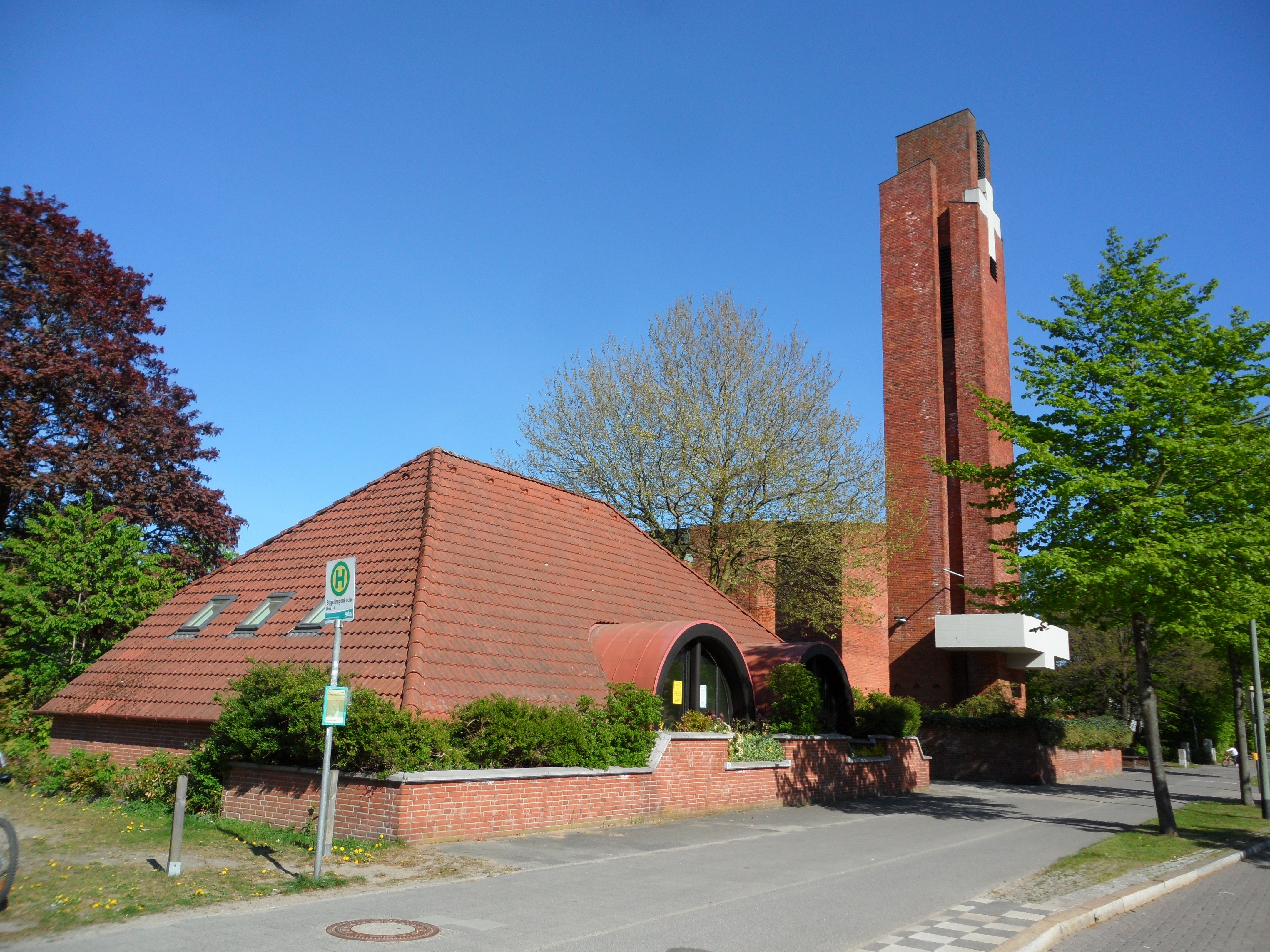 The Bugenhagen Church in Neumünster